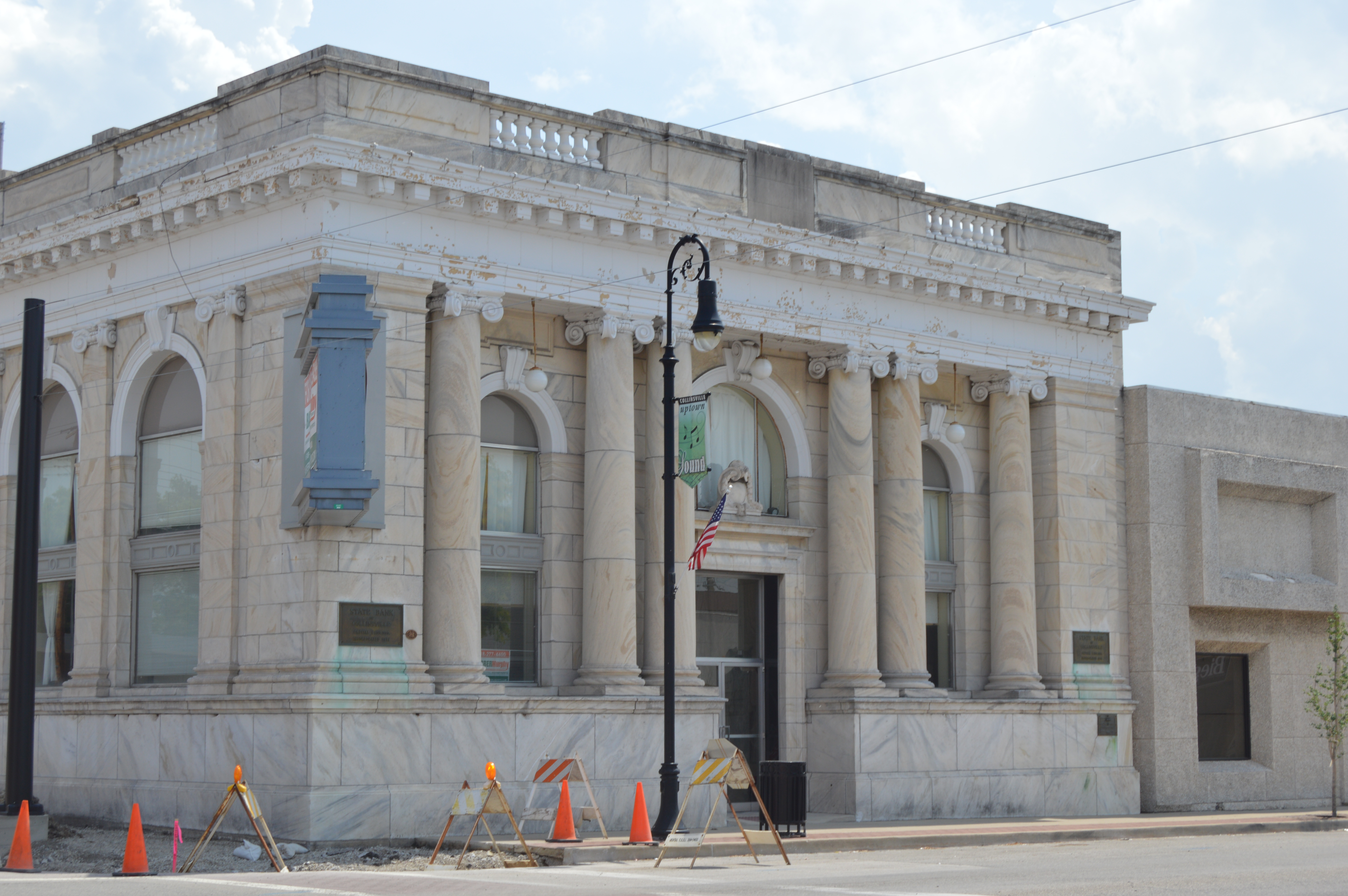 Front of the State Bank Building, located at 102 W. Main Street in Collinsville, Illinois, United States. Built in 1916, it is listed on the National Register of Historic Places.